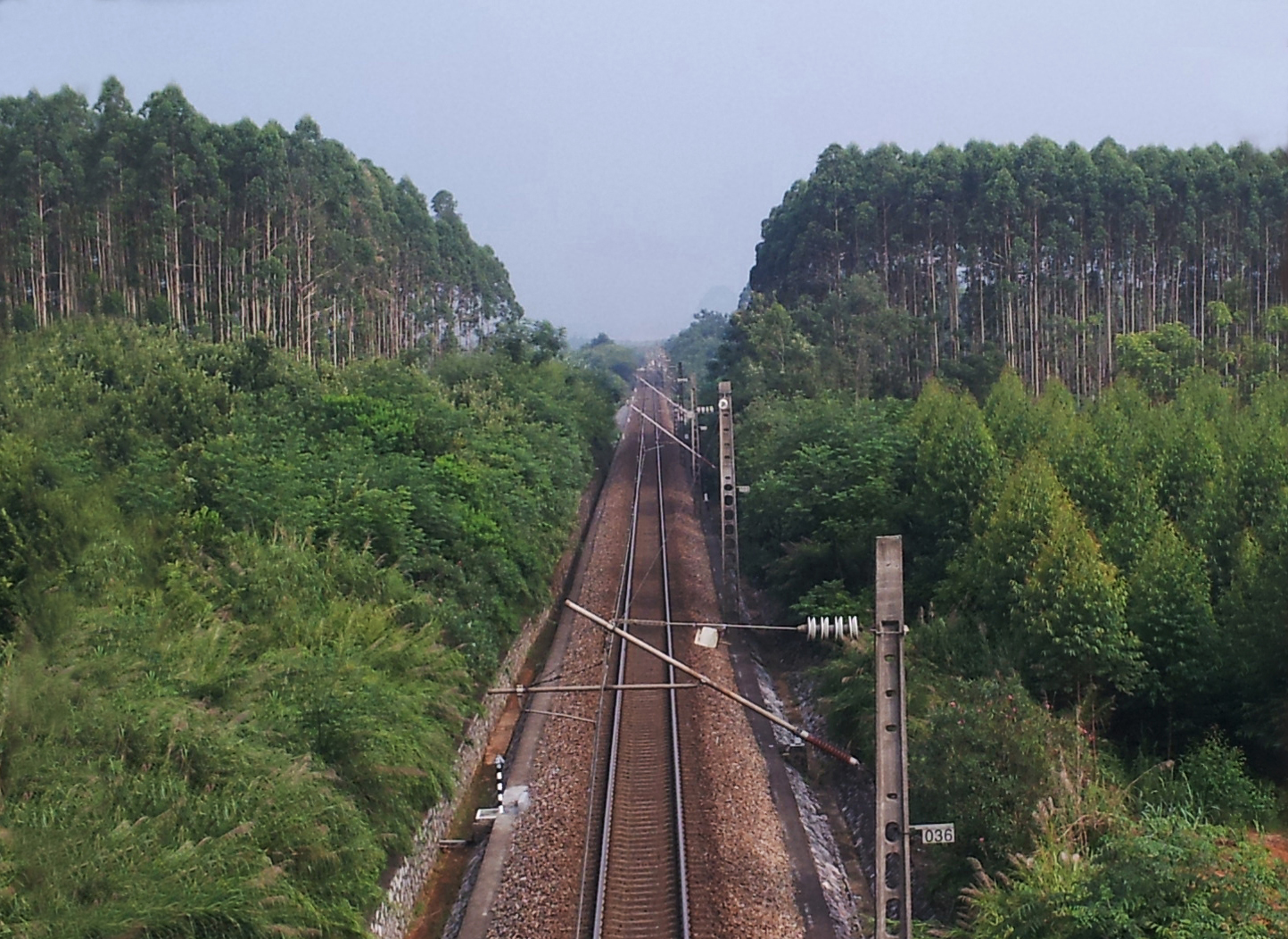 Nanning–Kunming Railway| at Long'an, Guangxi